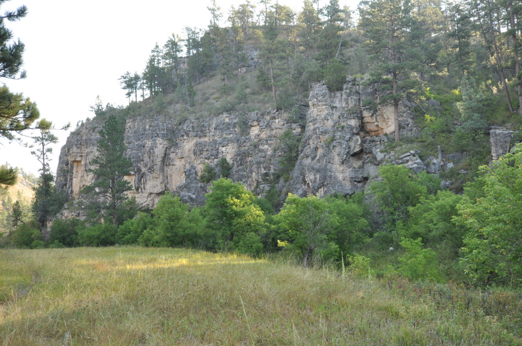 Beaver Creek Rockshelter vicinity, Wind Cave National Park.